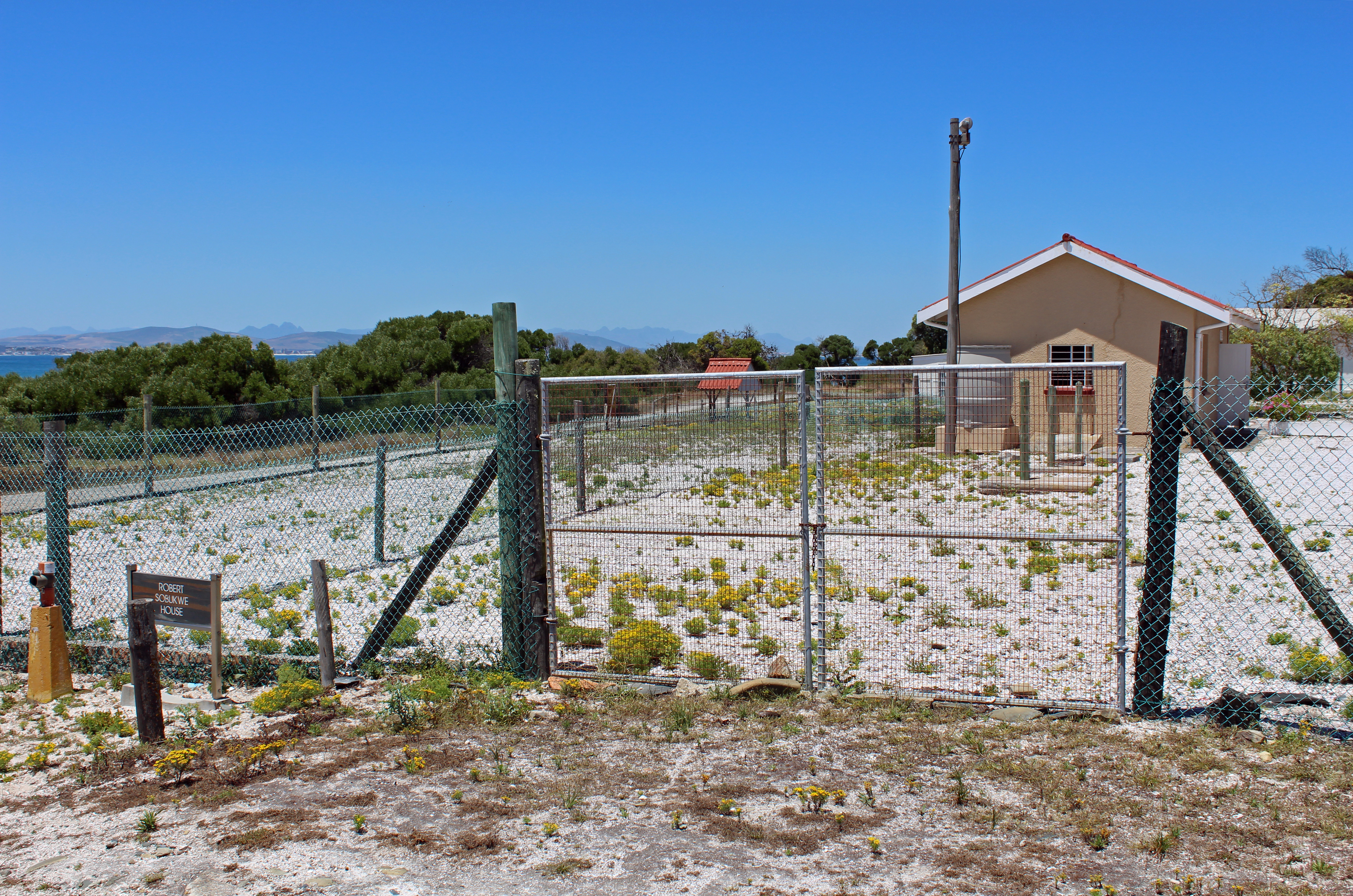 House on Robben Island where Robert Sobukwe was kept in solitary confinement, alongside the prison dog kennels. Photograph taken from tour bus (passengers not allowed to disembark).